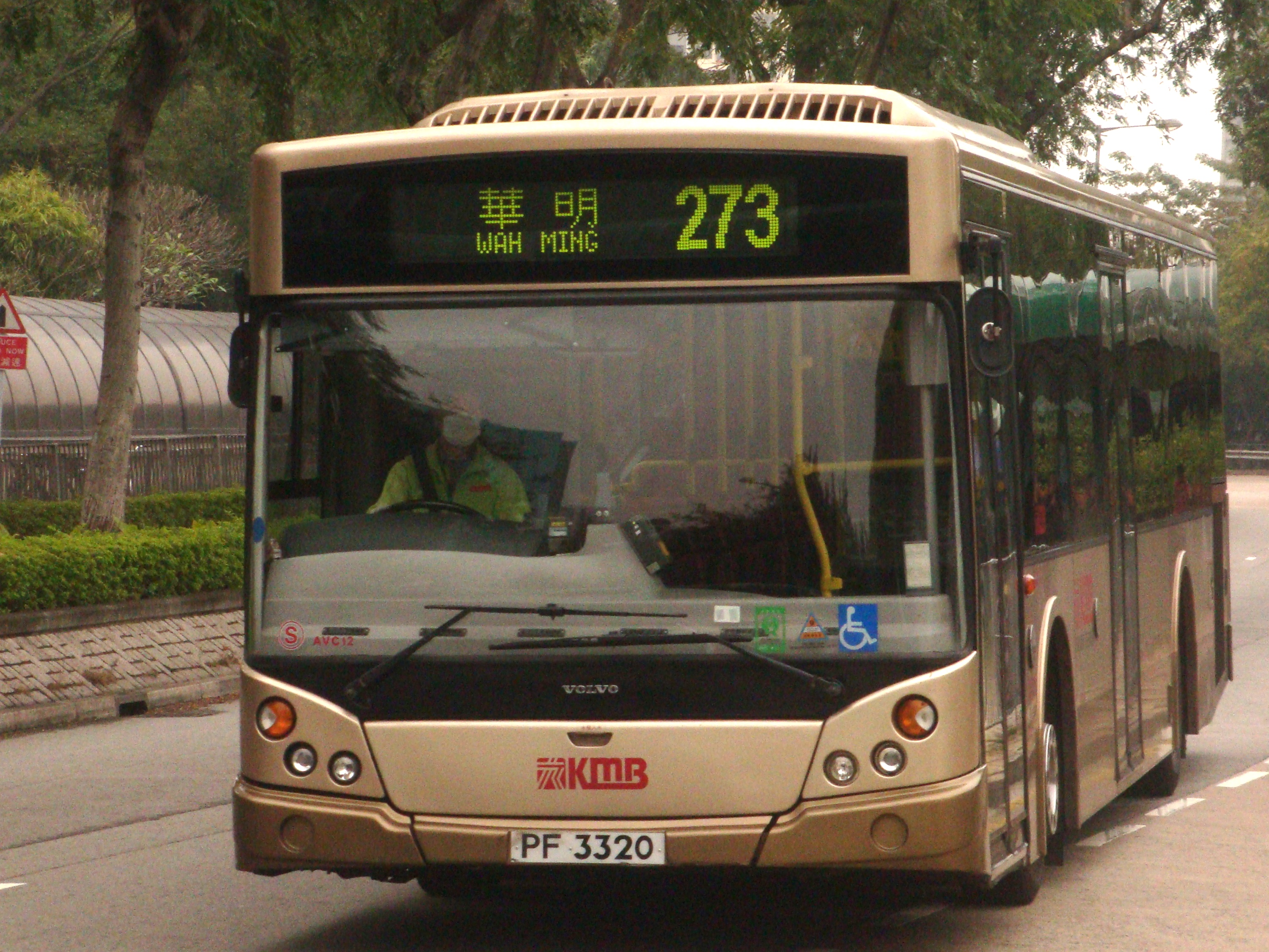 A Volvo B7RLE (MCV Evolution) operated by Kowloon Motor Bus in Hong Kong.